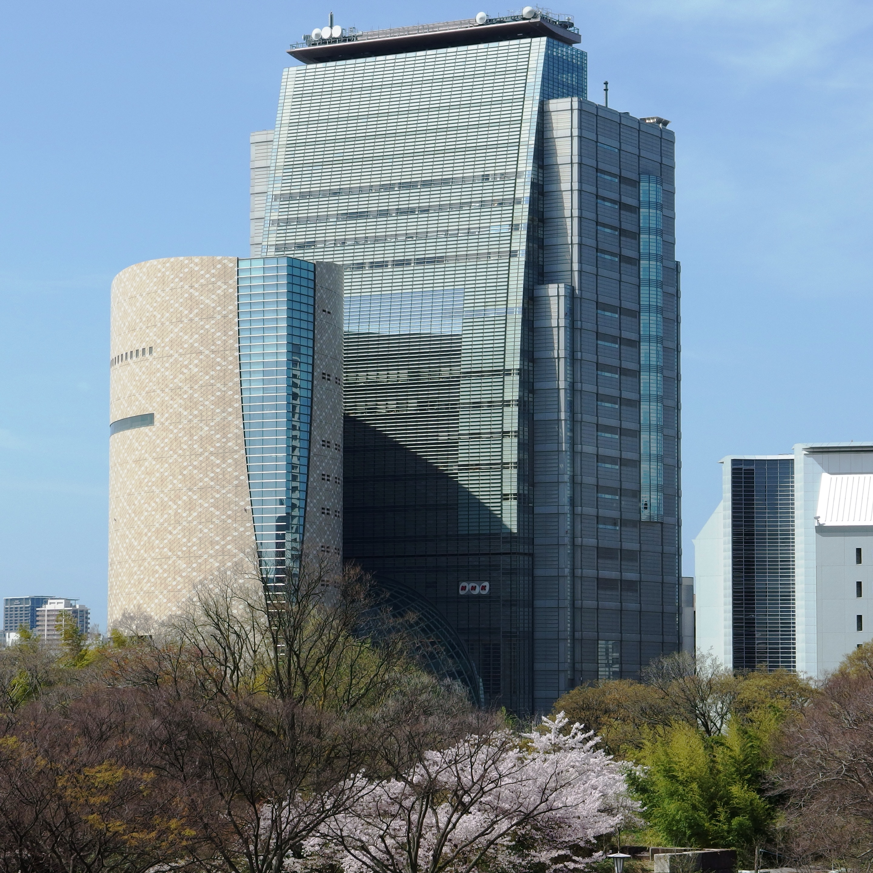 NHK Osaka Broadcasting Station Building in Osaka, Osaka Prefecture, Japan